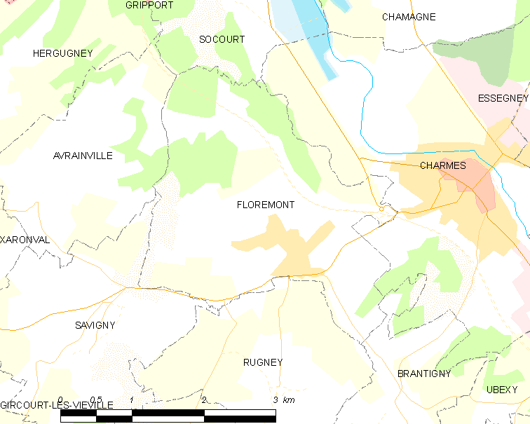 Map of French municipality Florémont